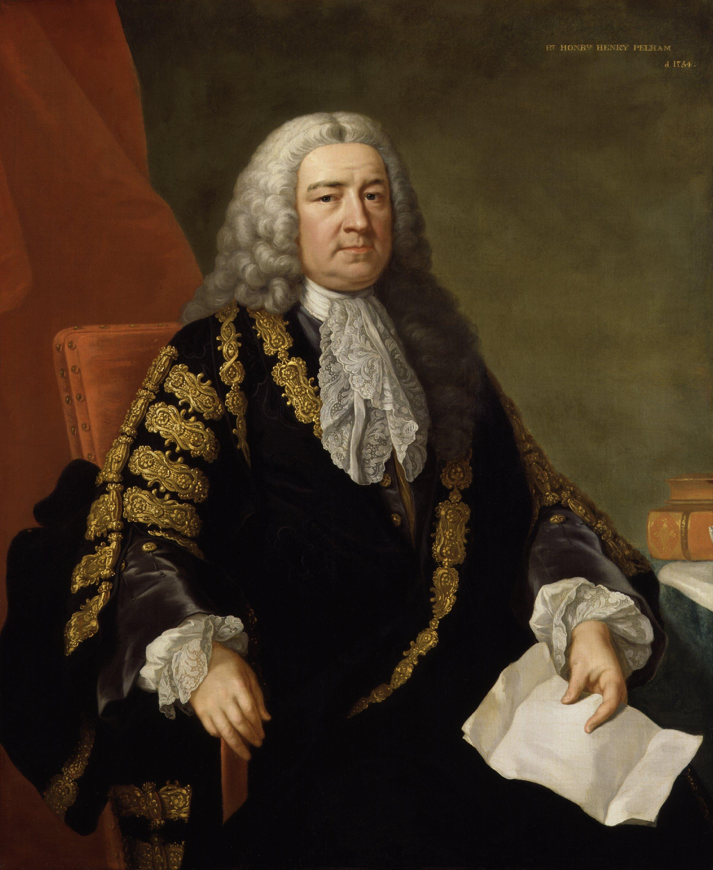 Portrait of Henry Pelham (1694-1754)